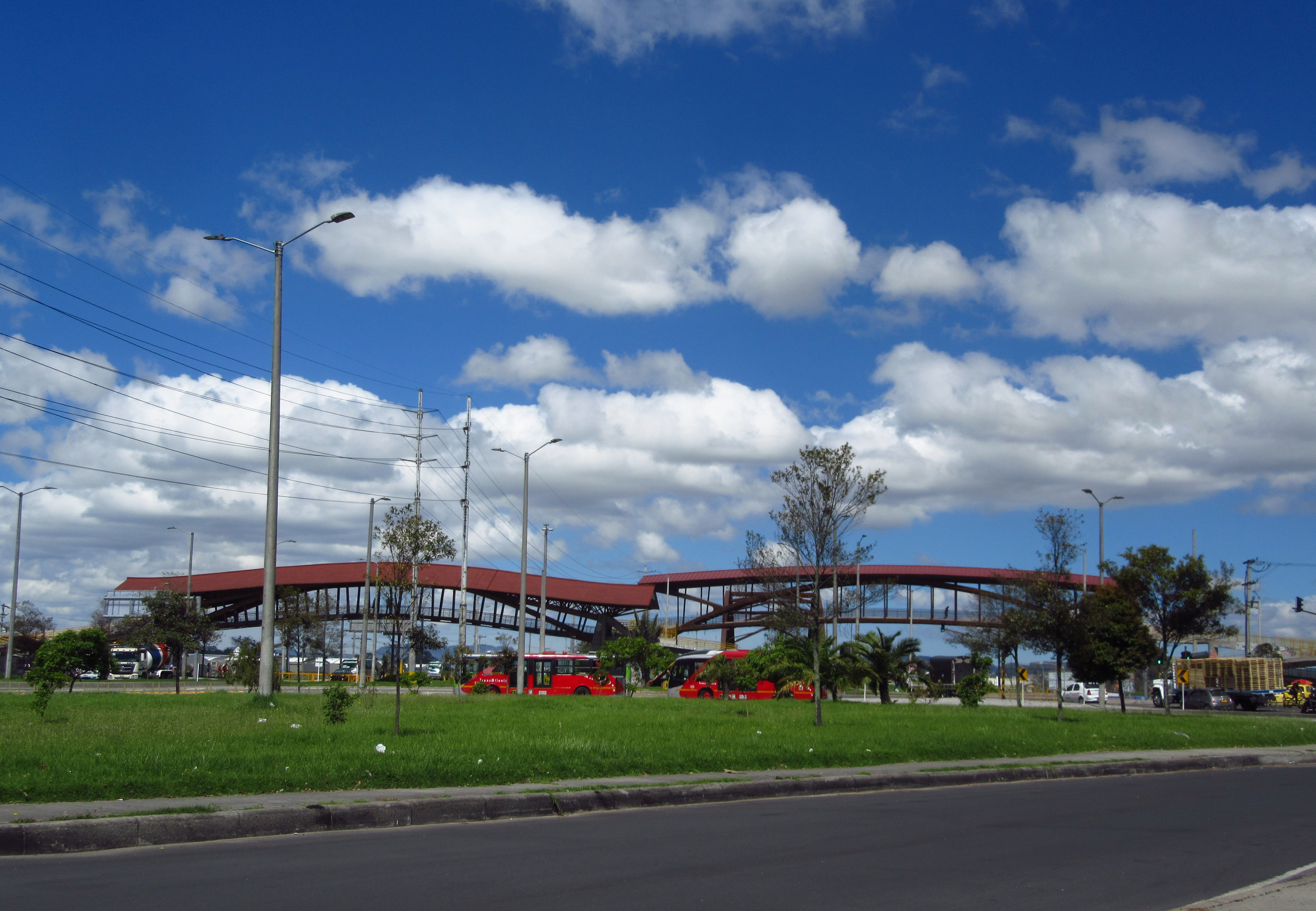 Bogotá